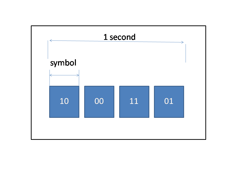 Baud and Symbol in Modulation